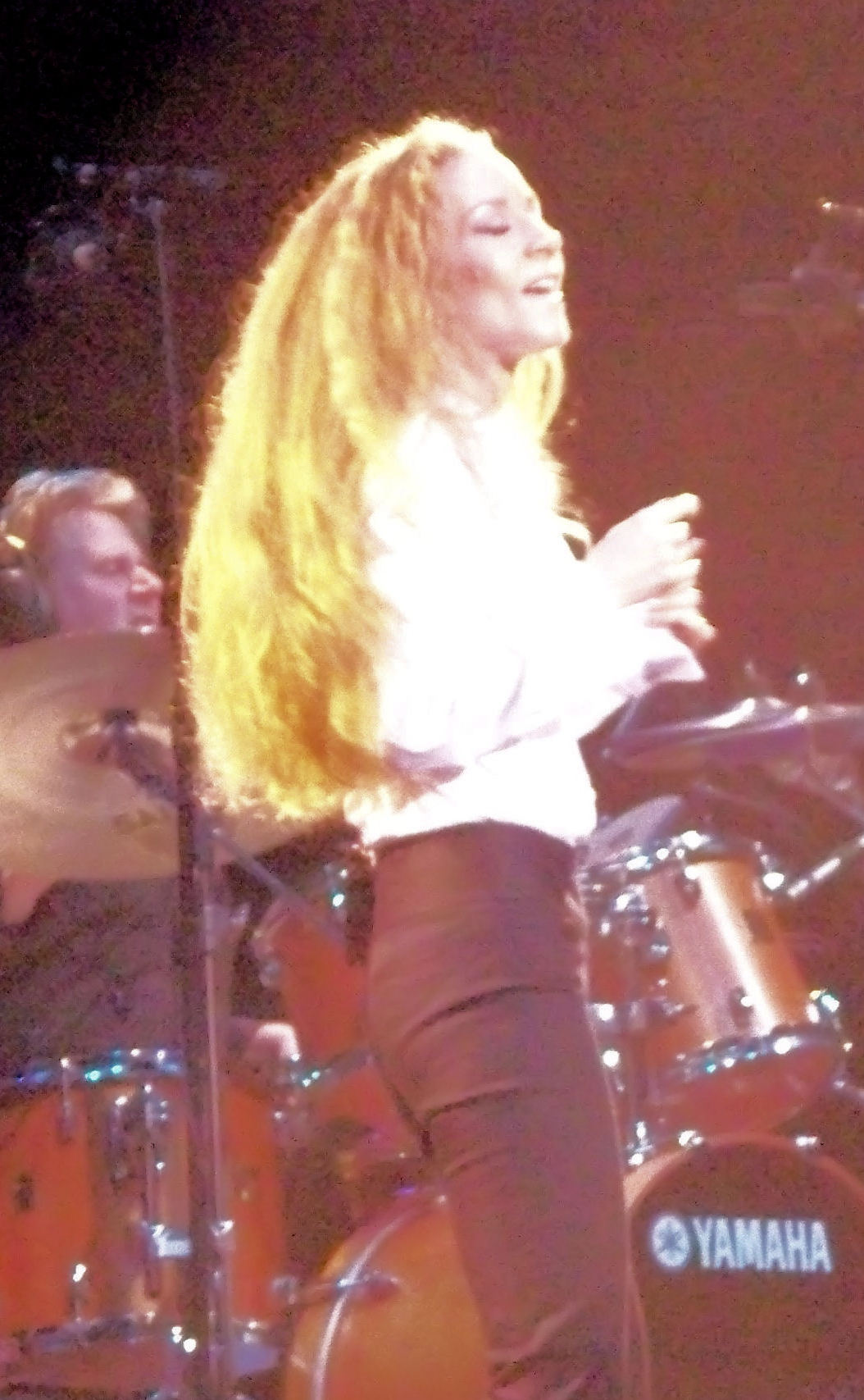 Amanda Marshall (with Al Webster on drums) in concert at Casino Rama, Ontario, Canada, October 13, 2007